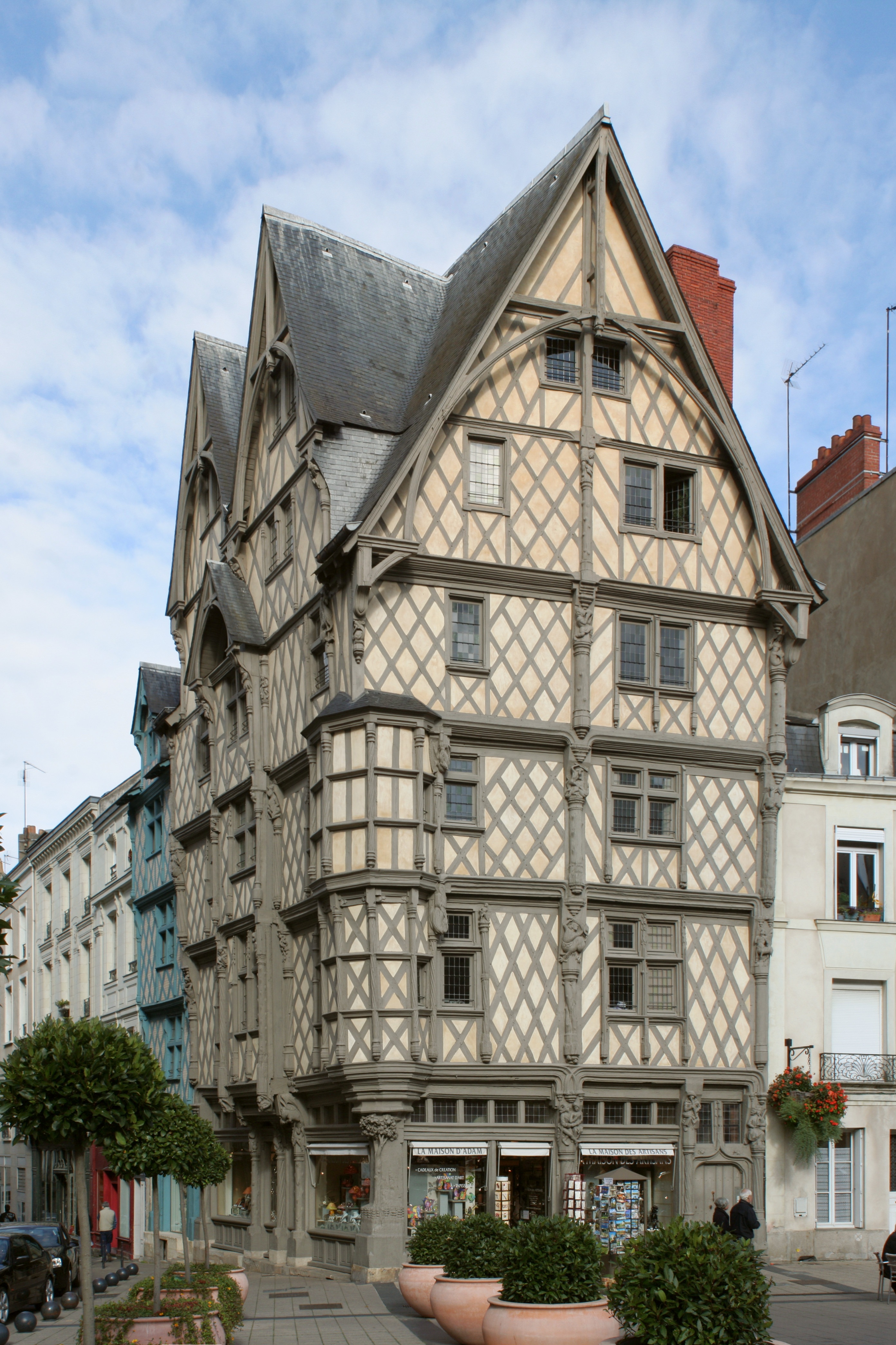 Maison d'Adam ('Adam's House'), also called maison d'Adam et Ève ('Adam and Eve's House') or maison de l'Arbre de Vie (Tree of life House), in Angers, France.Assembly of three photographies made with Hugin.